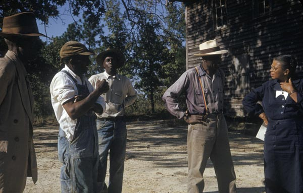 Human test subjects from the Tuskegee Syphilis Study talking with a study coordinator, Nurse Eunice Rivers